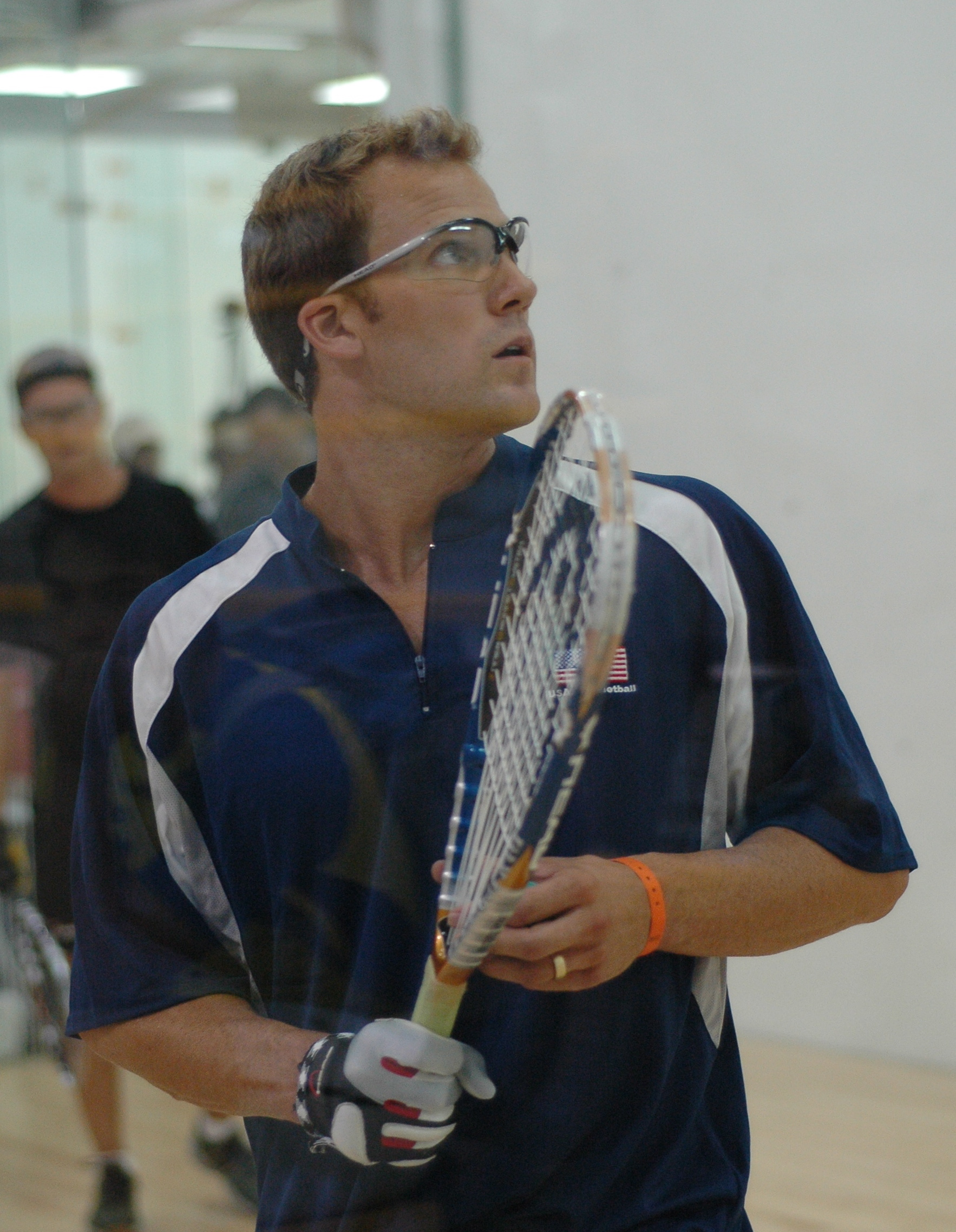 Profile picture of Rocky Carson at 2006 International Racquetball Federation World Championships in Santo Domingo, Dominican Republic.